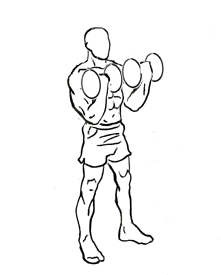 an exercise of biceps